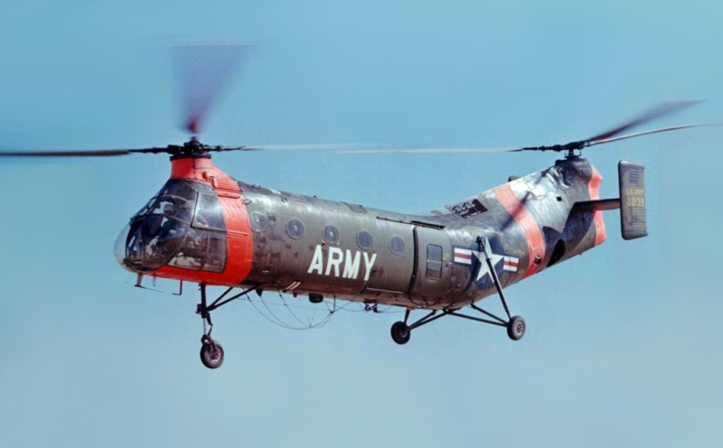 A U.S. Army Vertol CH-21C Shawnee